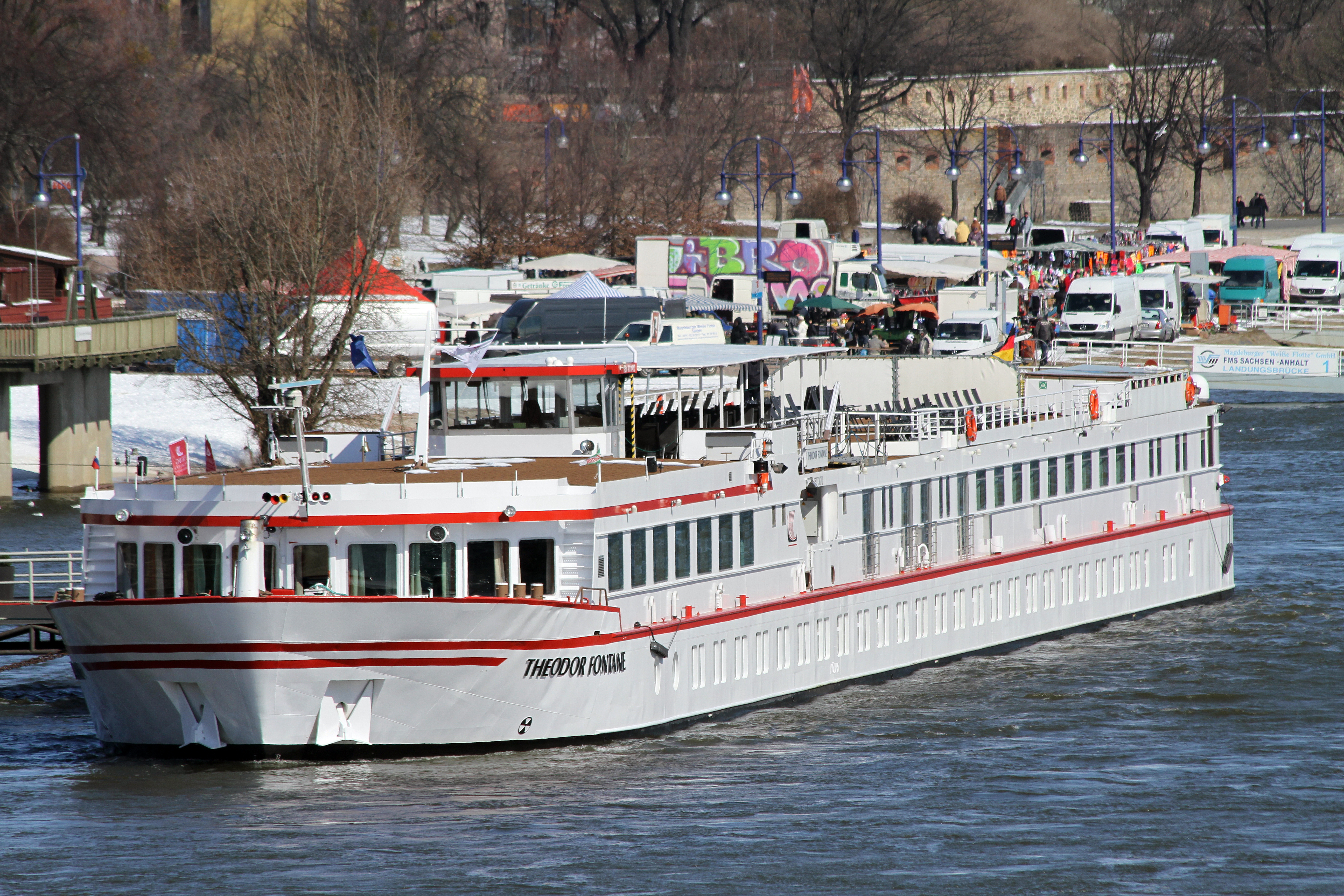 River cruise ship Theodor Fontane in Magdeburg